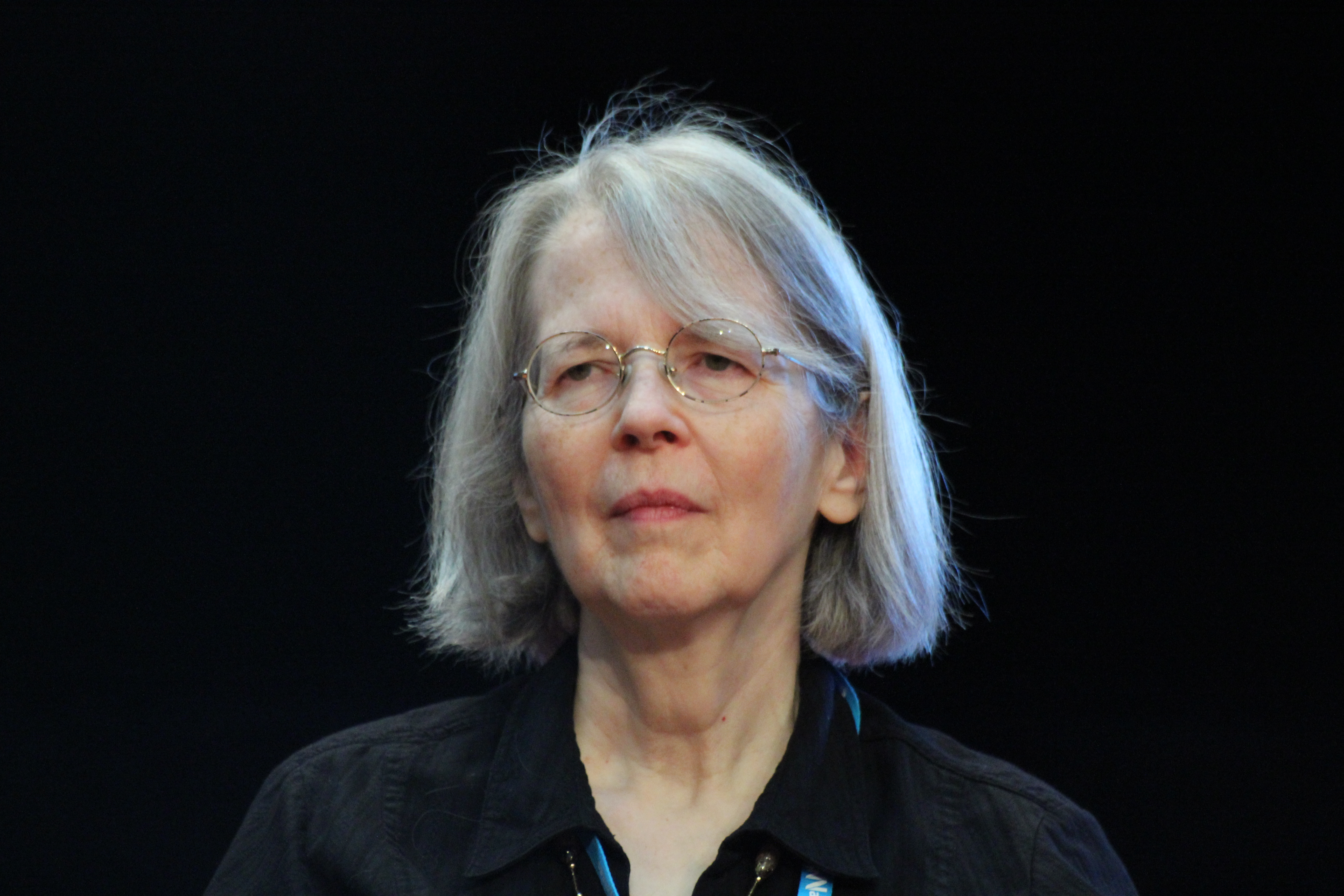 Esther Rochon at the Utopiales 2014 in Nantes, France.